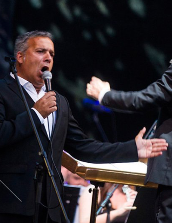 paco Lodeiro Cantando Praza da Quintana